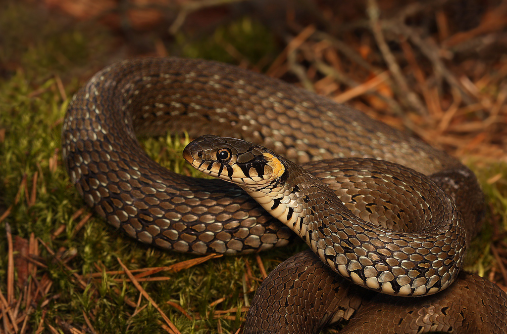 Grass Snake - Natrix natrix